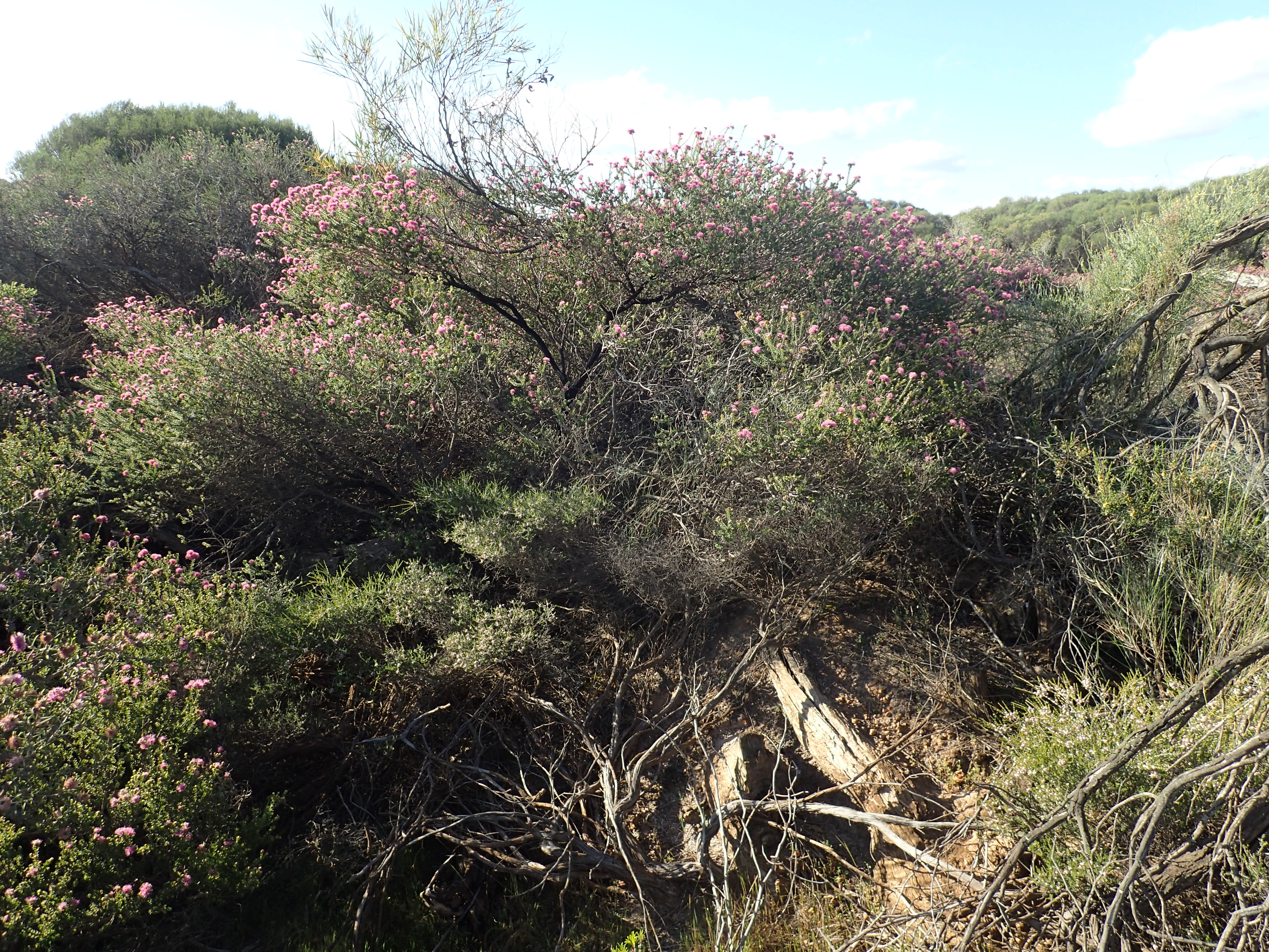 Melaleuca ryeae near Bunney Road, near Skipper Road, Arrowsmith